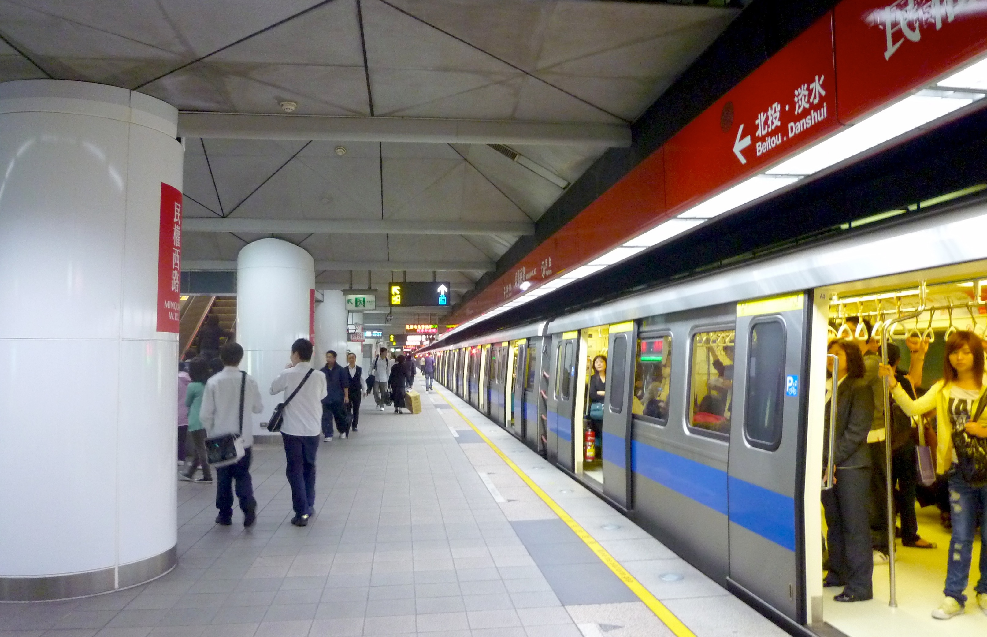 Taipei MRT rolling stock on Platform 1, Minquan West Road Station.